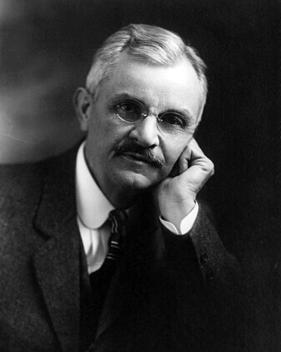 Henry Wilson Temple, US Representative from Pennsylvania